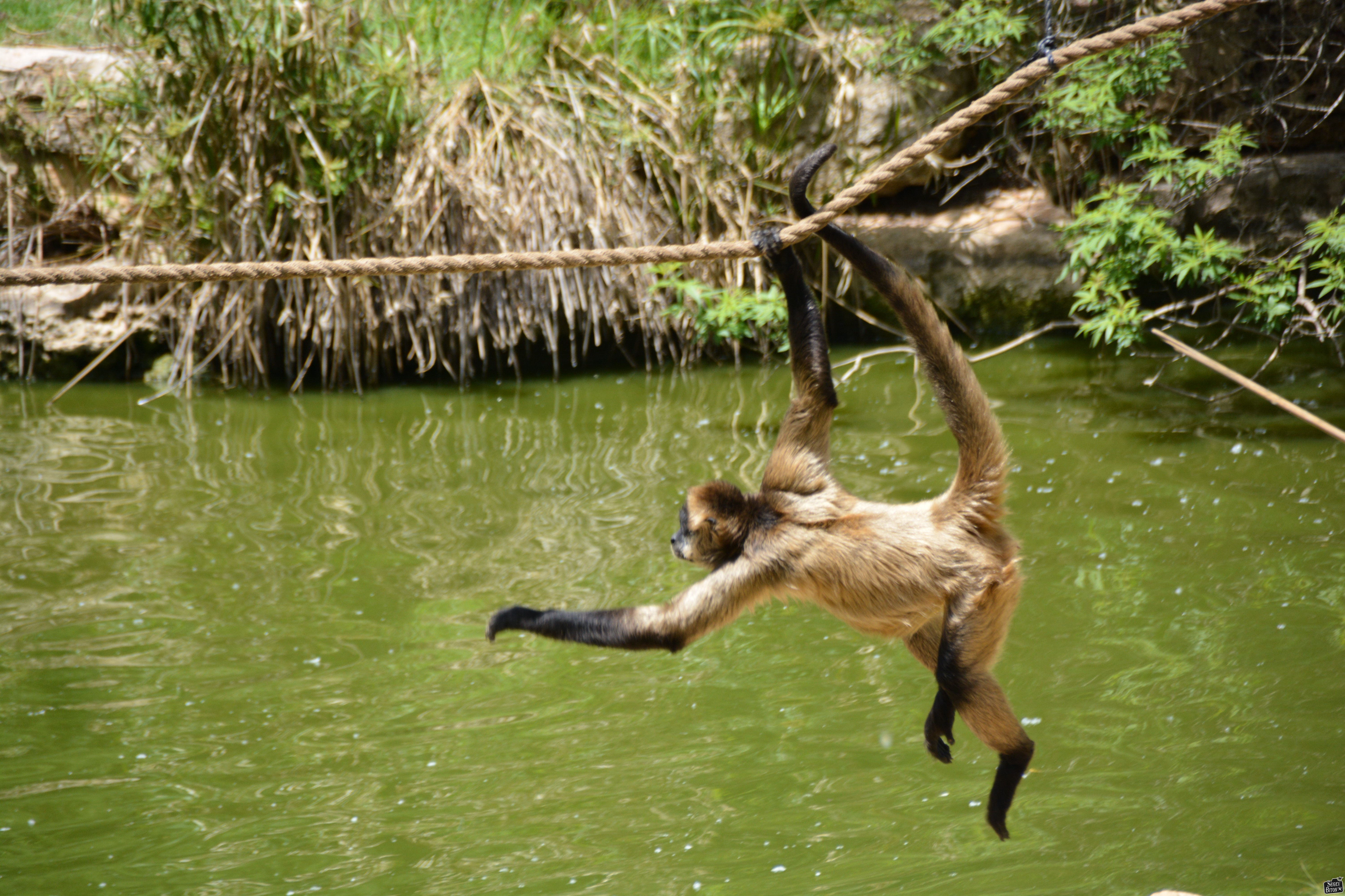 The Biblical Zoo in Jerusalem